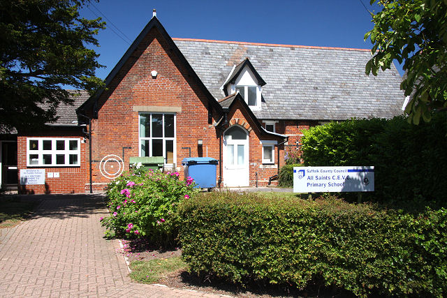 All Saints Primary School, Lawshall This primary school, catering for children aged 5 to 9, is located in the village of Lawshall, immediately adjacent to the church, from which it gains its name.